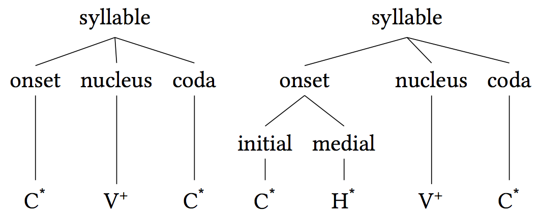 Syllable structure with division into onset, nucleus and coda as tree diagrams according to several phonologic traditions and theories, i.e. segmental ones.